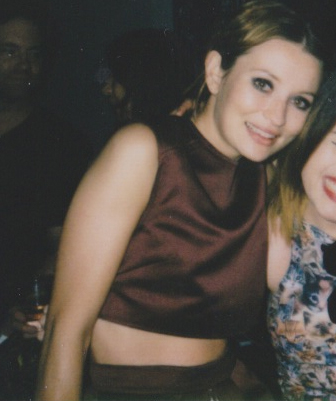 Emily Browning at the God Help the Girl Premiere in NYC on August 25 2014